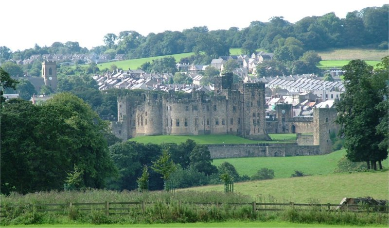 Alnwick Castle, Northumberland